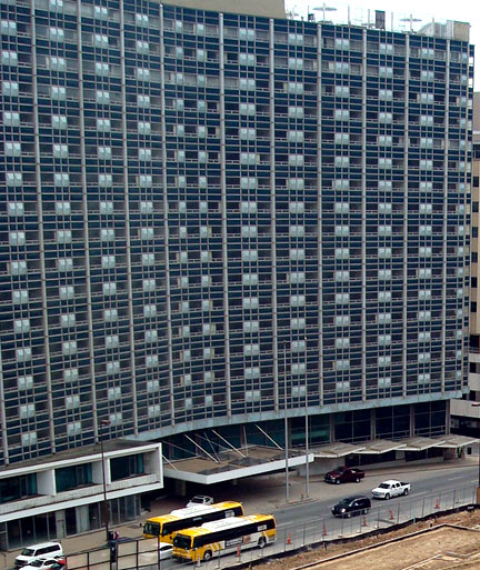 Photo of Dallas Statler Hilton Hotel exterior